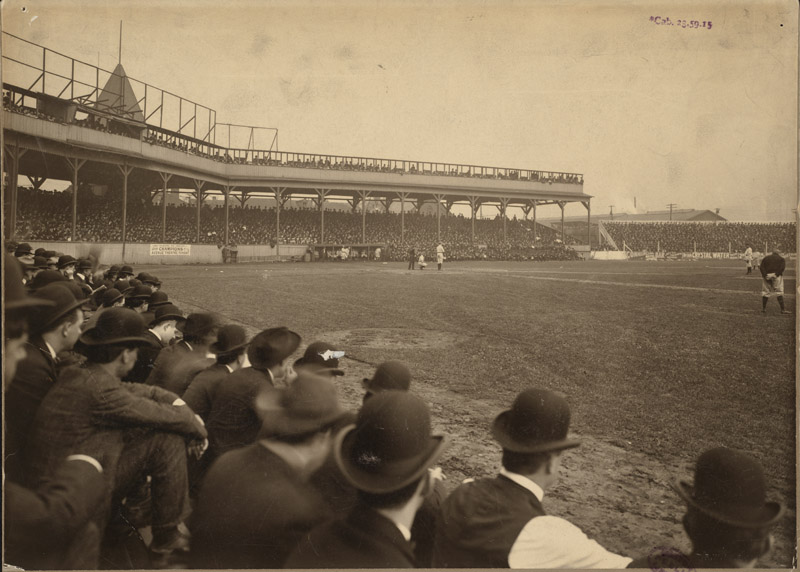 Photo courtesy of the Boston Public Library. Rooters at Pittsburgh Ball Grounds, 1903 World Series. Johnston, R.W., 1874-1960 (photographer).